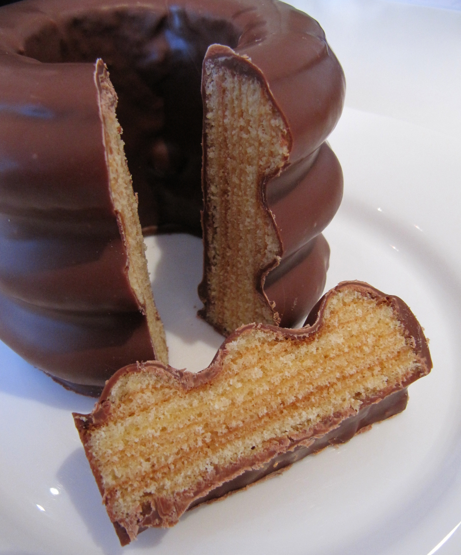 ALDI-Baumkuchen_0003